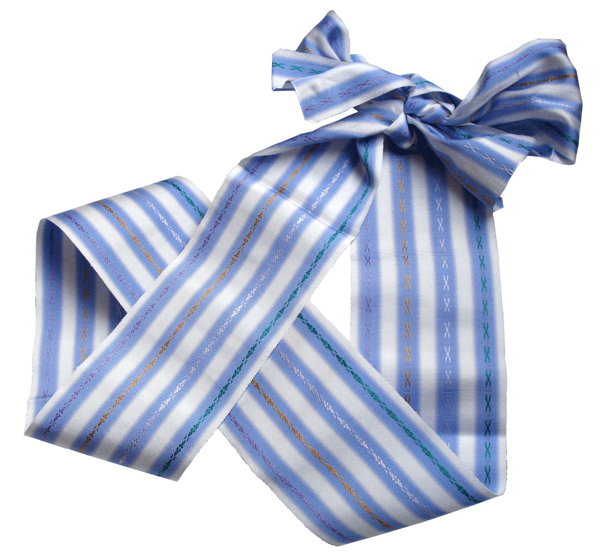 Datejime/date-jime/date jime